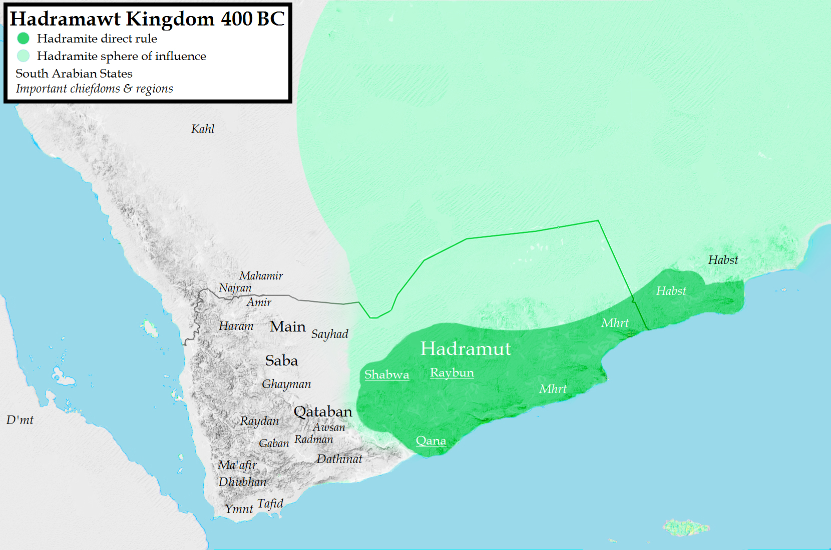 Hadramawt 400 BC: Main & Hadramawt Gain independence from Saba. Awsan no longer a state, Himyar & Aksum still didn't appear yet Mhrt (Mahra) still a dominant tribe in Shihr Hbst (incense workers) in Dhofar prior to building Sumharam